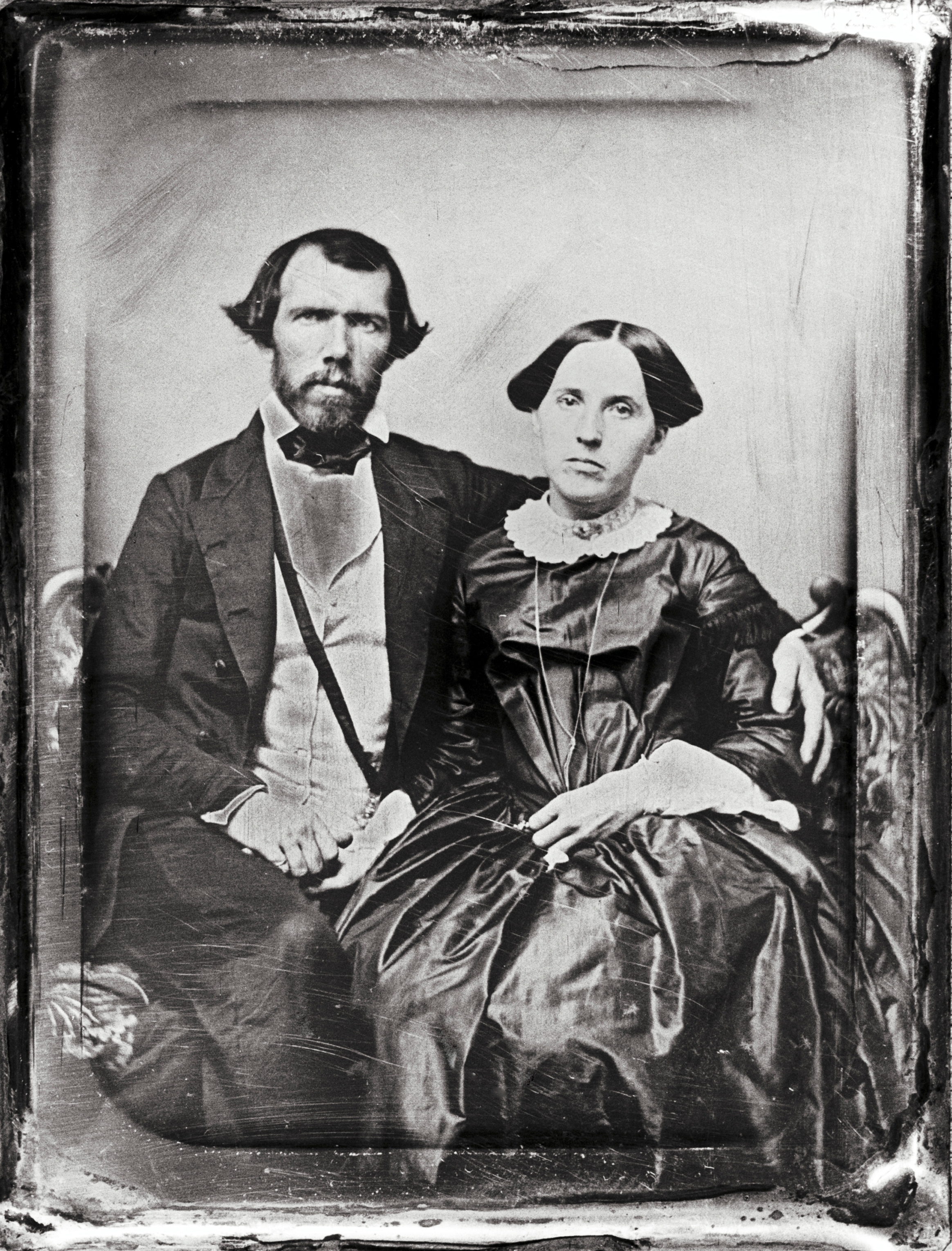 From original daguerreotype c.1860